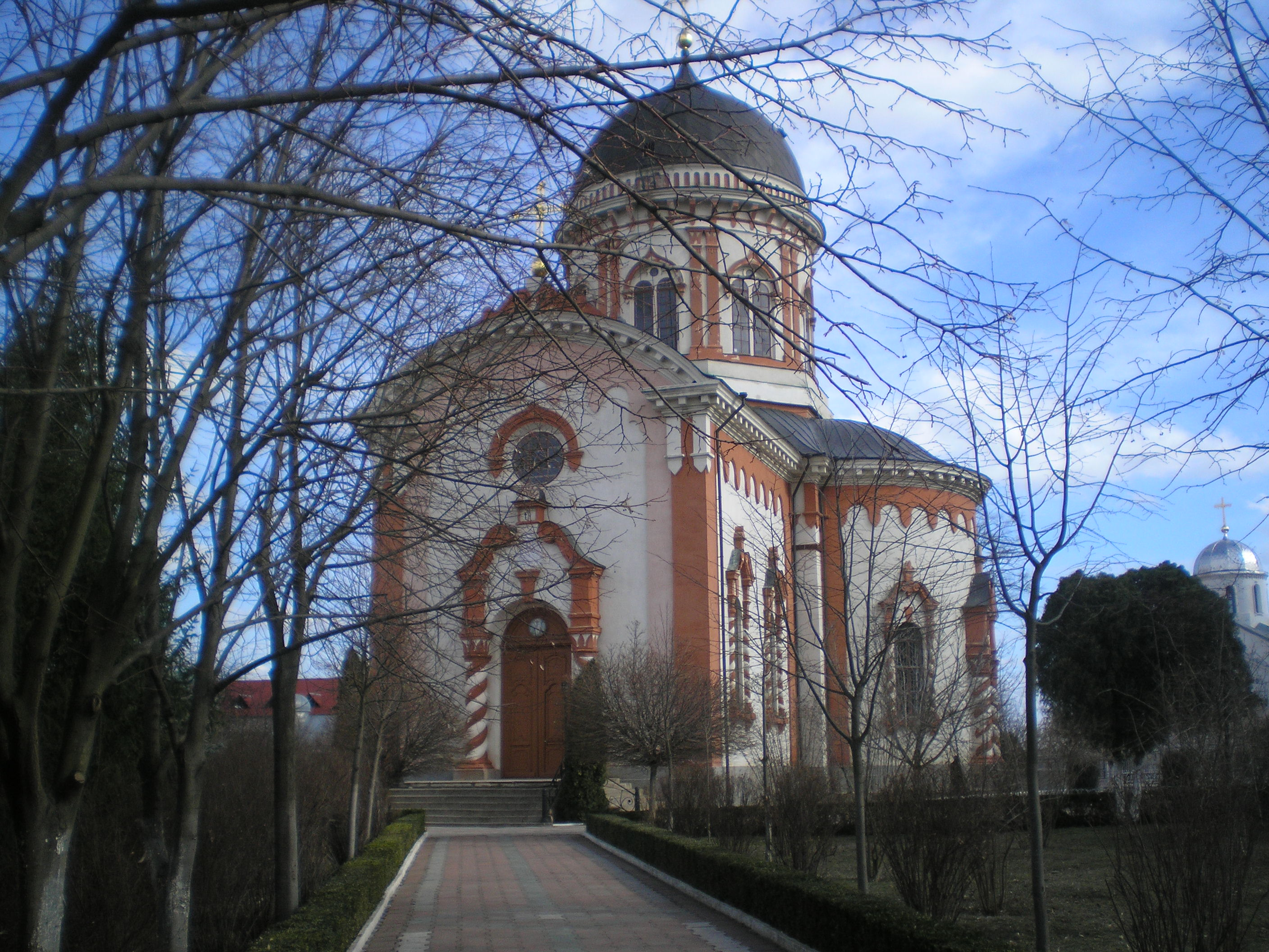 Kitskany monastery, Transnistria